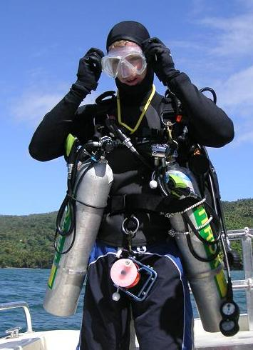 Photograph of a tec diver with sidemount scuba tanks